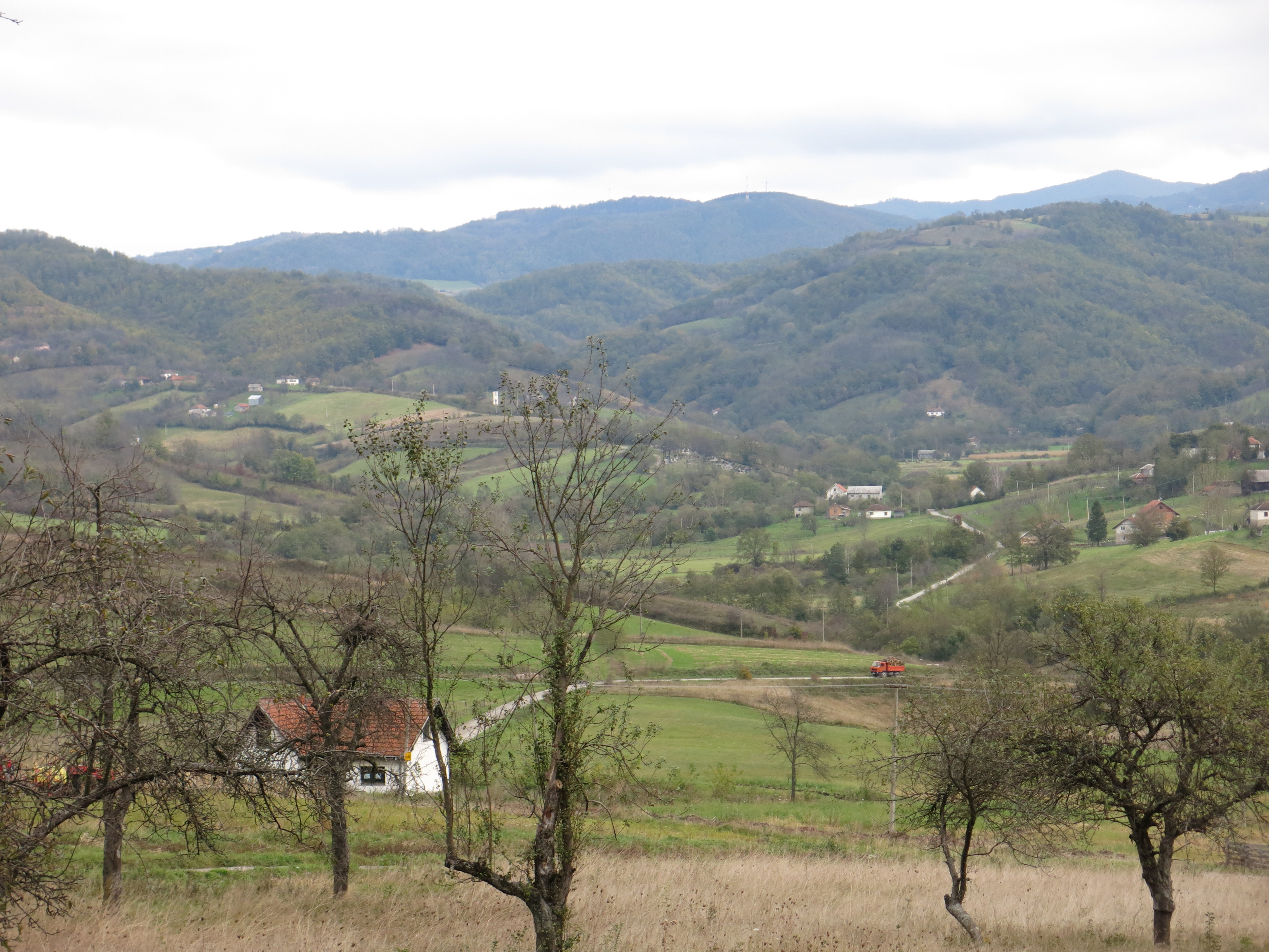 Šilopaj, View of the village